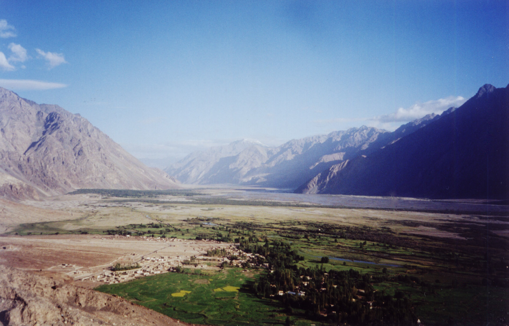 View from Diskit Gompa (monastery) on Nubra Valley, Ladakh, India